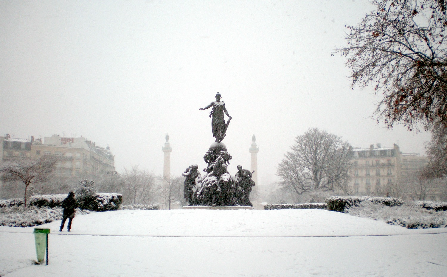 Square de la place de la Nation - Paris